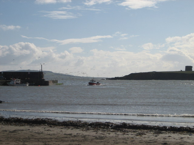 Loughshinny Harbour Returning to harbour.